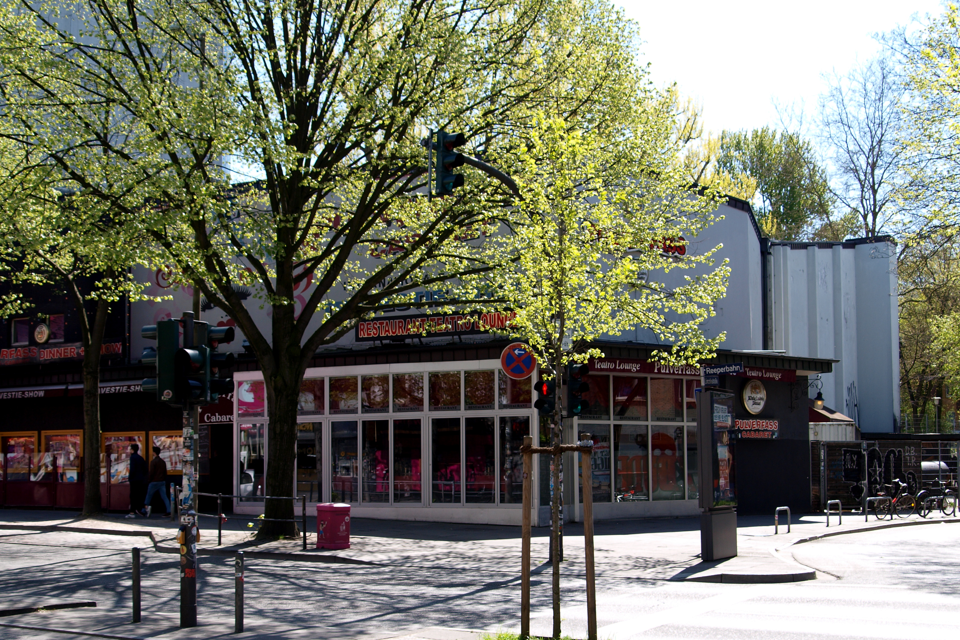 Reeperbahn 147, Hamburg, Germany. Pulverfass Cabaret. Former cinema Oase-Filmtheater.